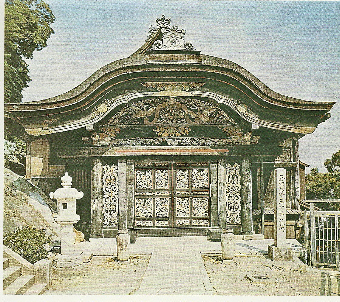 Side one of the Karamon Gate at the Hogon-ji Temple complex.